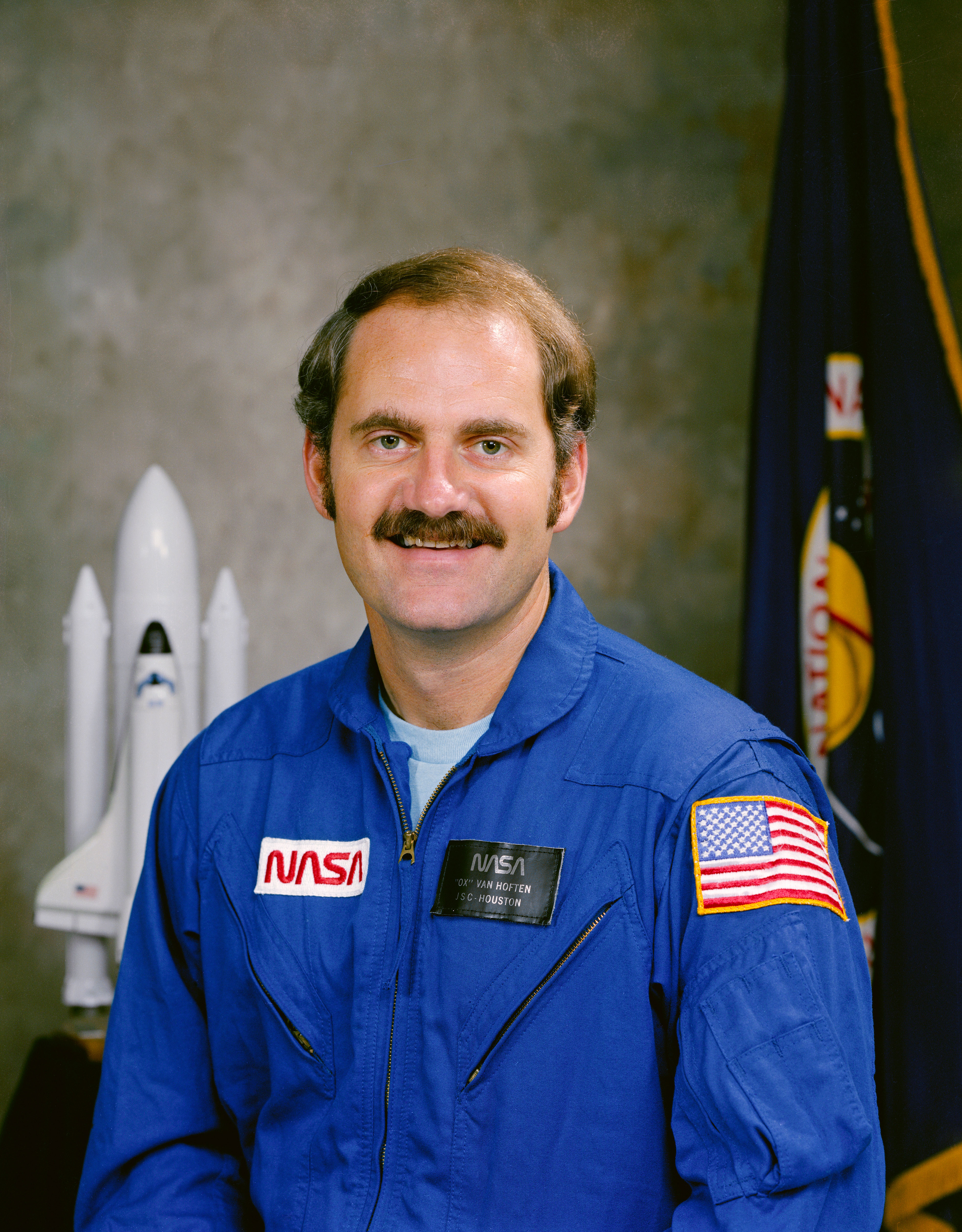 S78-35311 (31 Jan 1978) --- Astronaut James D. Van Hoften.